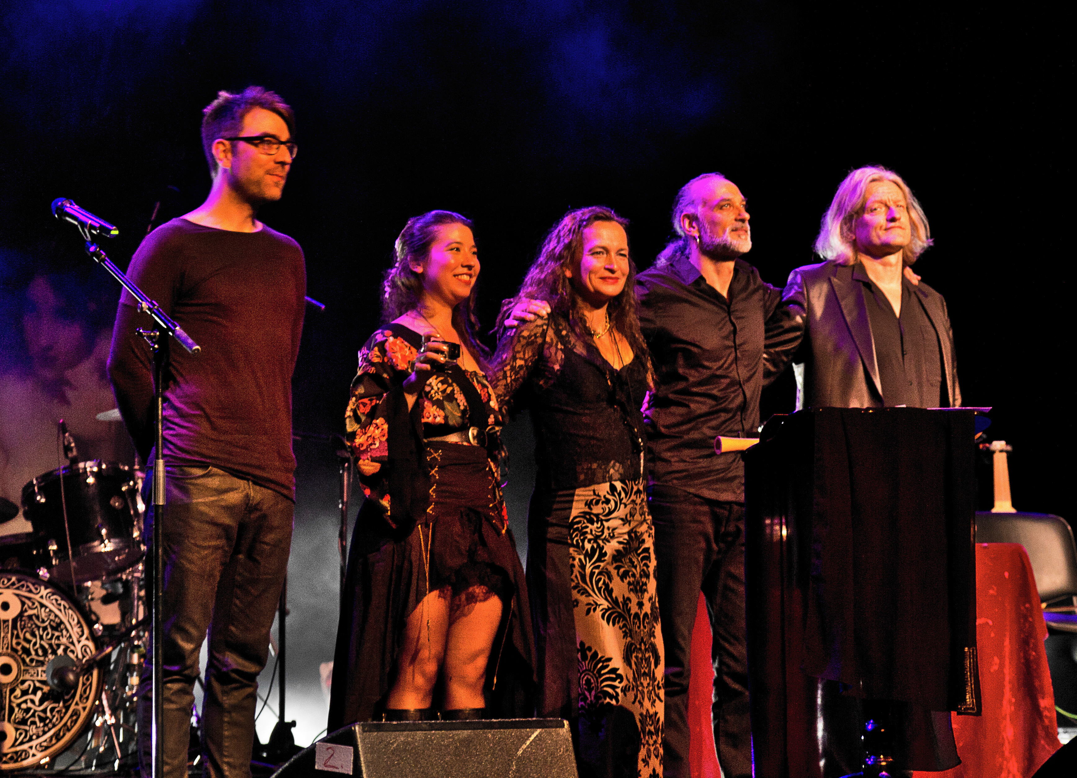 The German medieval electro band Qntal at the Wave-Gotik-Treffen 2015 in Leipzig/Germany.